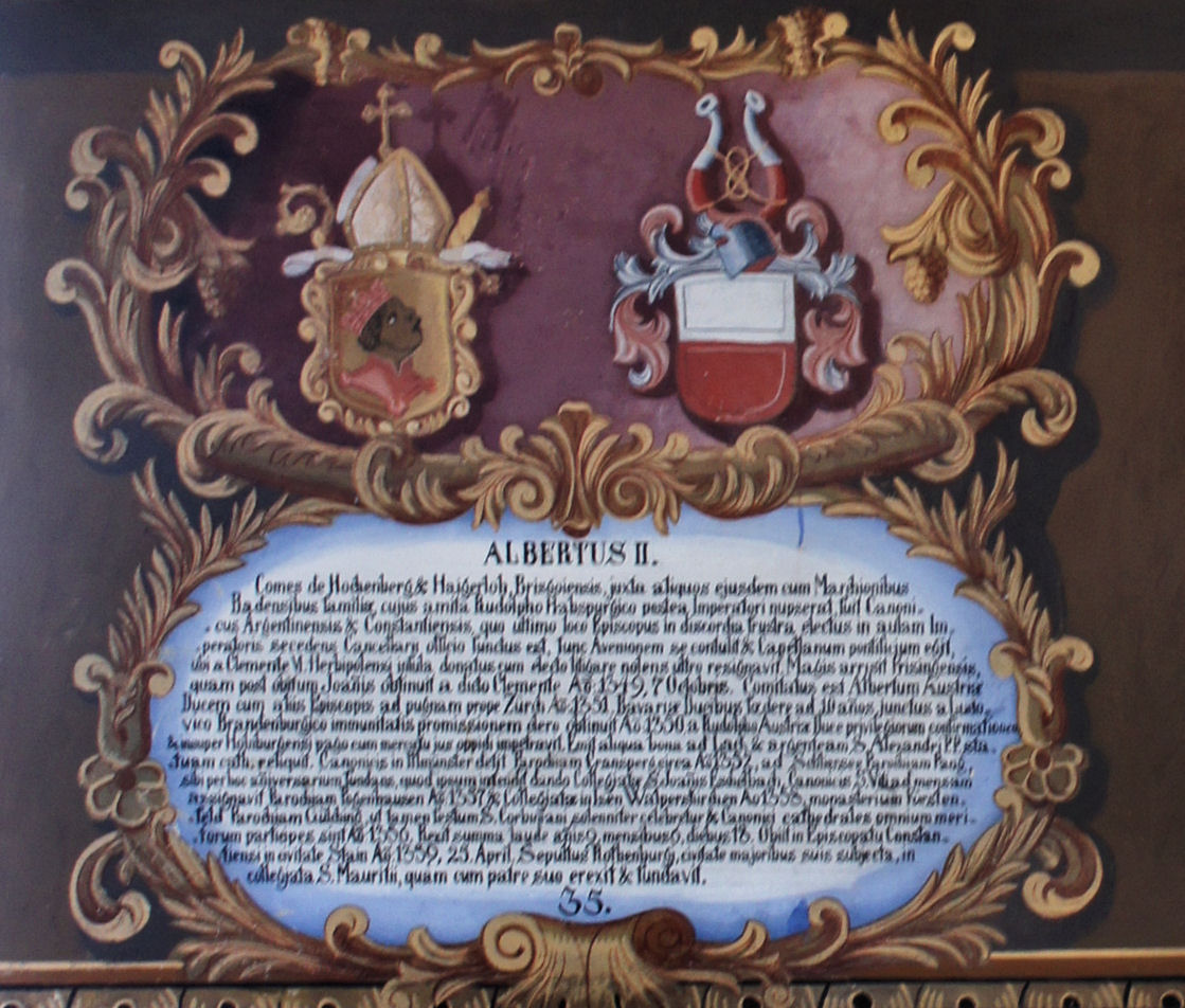 Wappentafel von Albert II. von Hohenberg, Fürstbischof von Freising, im Fürstengang zwischen Fürstbischöflicher Residenz und Freisinger Dom. Links das geistliche, rechts das persönliche Wappen, darunter ein lateinischer Text mit kurzer Biographie.